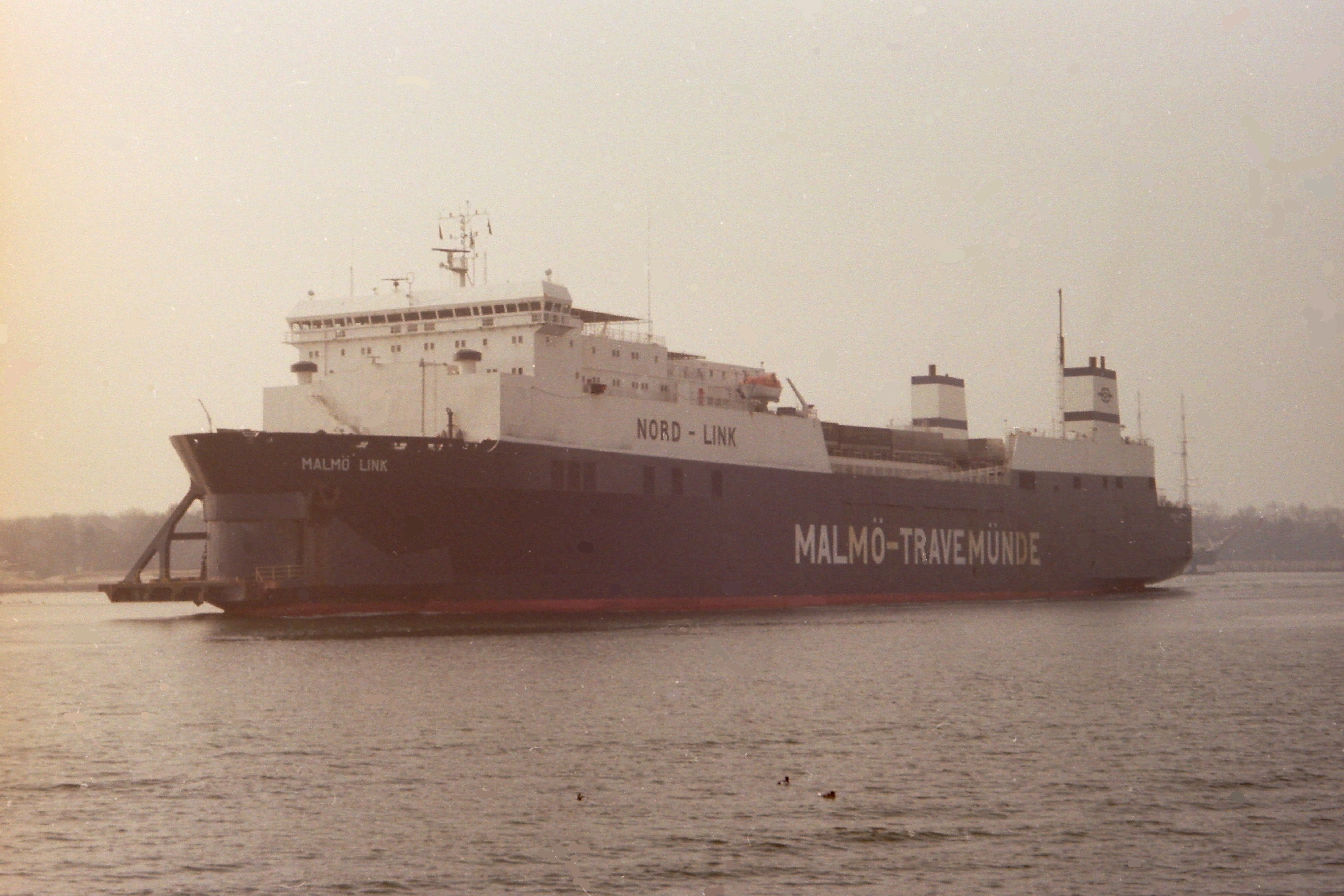 The Norwegian ferry Malmö Link leaves Travemünde in April 1993